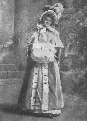 Gertrude Quinlan as "Marietta" in "La Boheme", Castle Square Opera Company